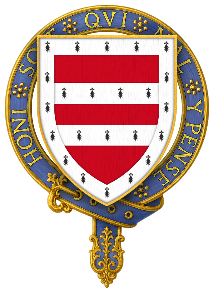 Coat of Arms of Sir Sanchet d'Abrichecourt, KG “ Sir Sanchet D’Abrichecourt, one of the Founders… Arms: Ermine, three bars humettee Gules. ” BELTZ, George Frederick, Memorials of the Order of the Garter from Its Foundation to the Present Time, London: William Pickering, 1841. “ Plate IV, Sir Sanchet Dabrichecourt, one of the First Founders… arms, which appear as gules two bars and a bordure ermine ” ST. JOHN HOPE, W. H., The Stall Plates of the Knights of the Order of the Garter 1348 – 1485: A Series of Ninety Full-Sized Coloured Facsimiles with Descriptive Notes and Historical Introductions, Westminster: Archibald Constable and Company LTD, 1901.